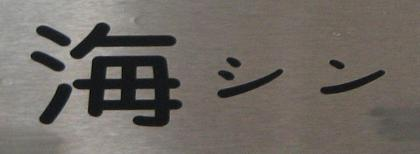 Symbol of JR Central Jinryo Rail Yard, marked on its rolling stock